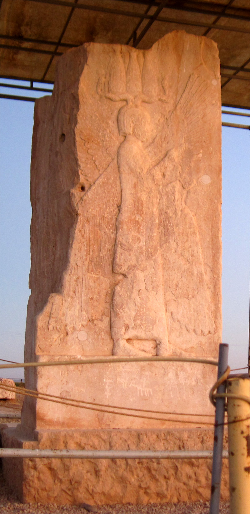 Cyrus the Great